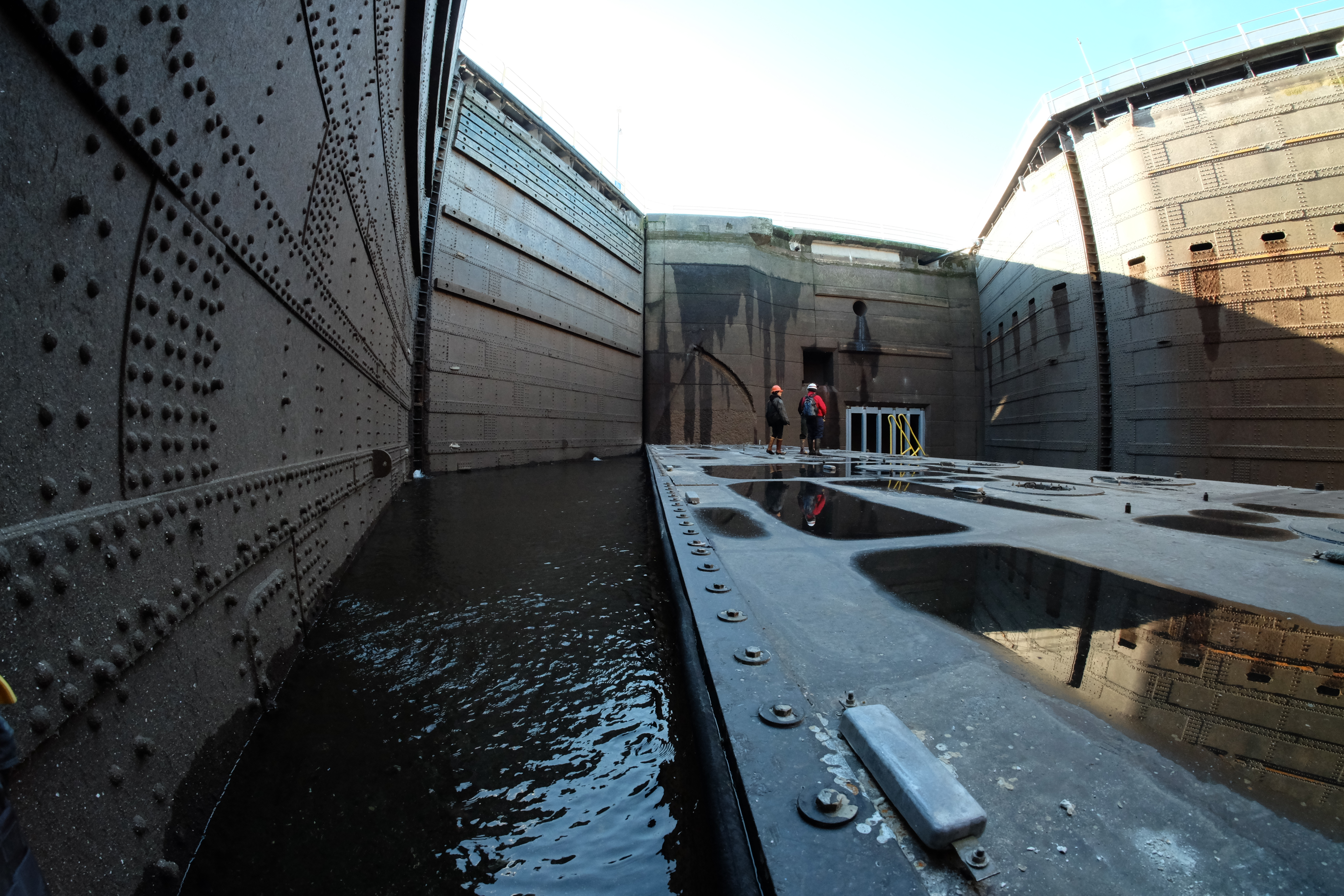 Hiram M. Chittenden Locks large lock annual maintenance 2015. Tour of de-watered lock and tunnels.